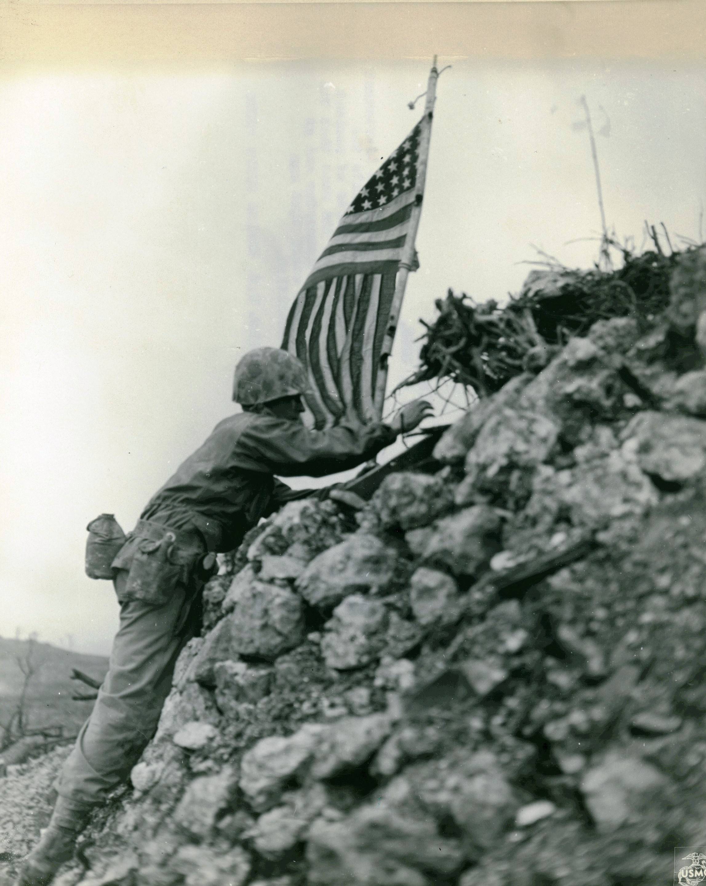 The caption on this photograph reads "The Stars and Stripes on Shuri Castle-Marine Lieutenant Colonel R.P. Ross, Jr., of Frederick, Md., plants the American flag on one of the remaining ramparts of ancient Shuri castle on Okinawa. This banner was the same that the First Marine Division raised at Cape Gloucester and at Peleliu. The flagpole is a Japanese staff that was battered and bent by American shellfire." From the Photograph Collection (COLL/3948), Marine Corps Archives & Special Collections OFFICIAL USMC PHOTOGRAPH